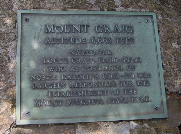 Plaque dedicated to former North Carolina governor Locke Craig at the summit of Mount Craig in the Black Mountains of North Carolina, in the southeastern United States.